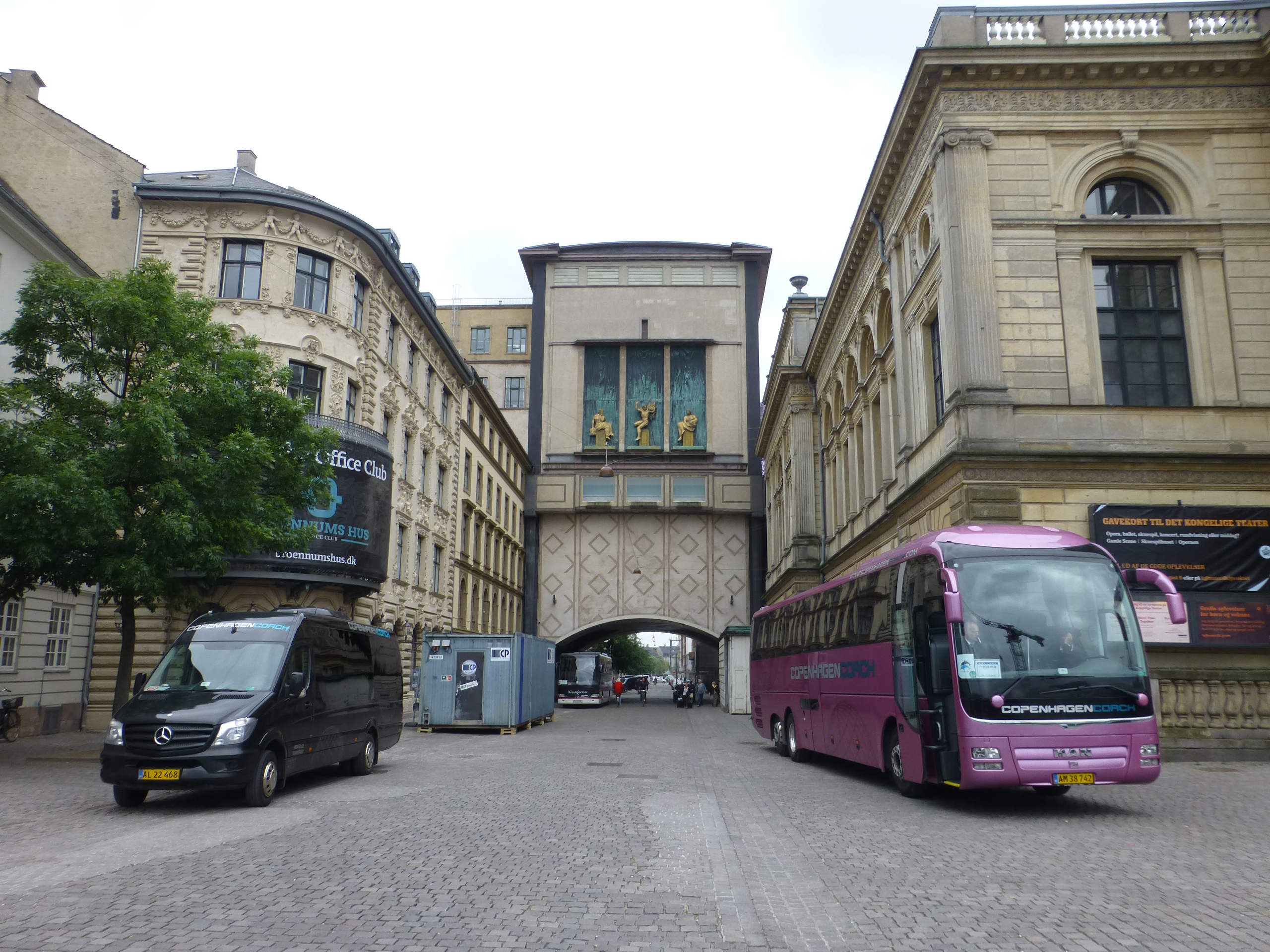 The street August Bournonvilles Passage in Indre By in Copenhagen.